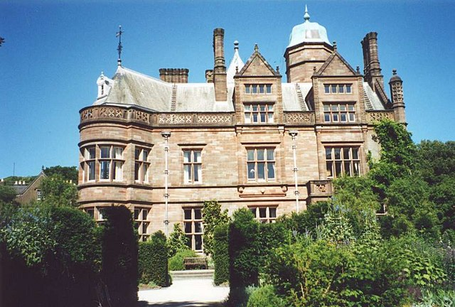 Photograph